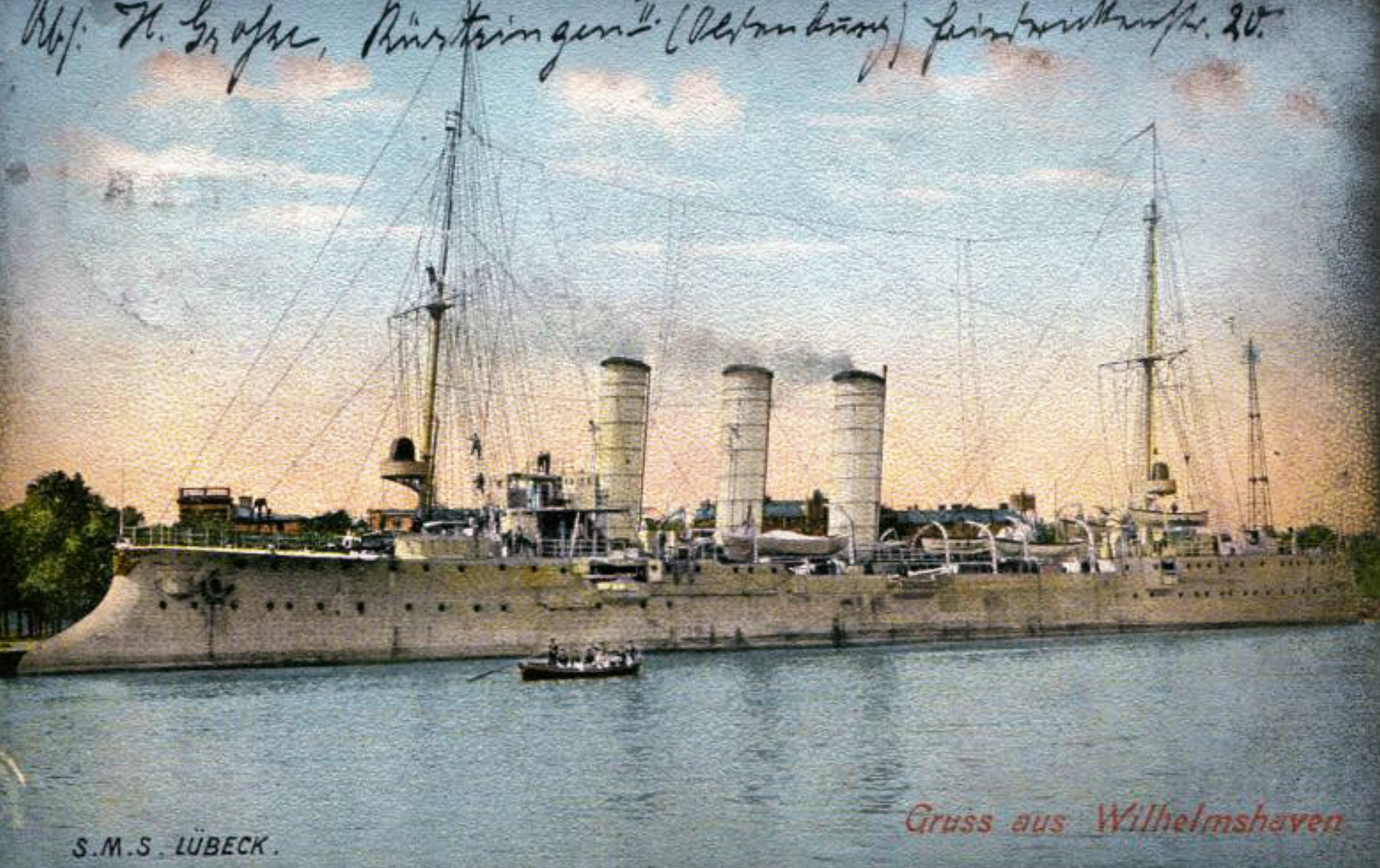 Light cruiser SMS Lübeck of the German Imperial Navy